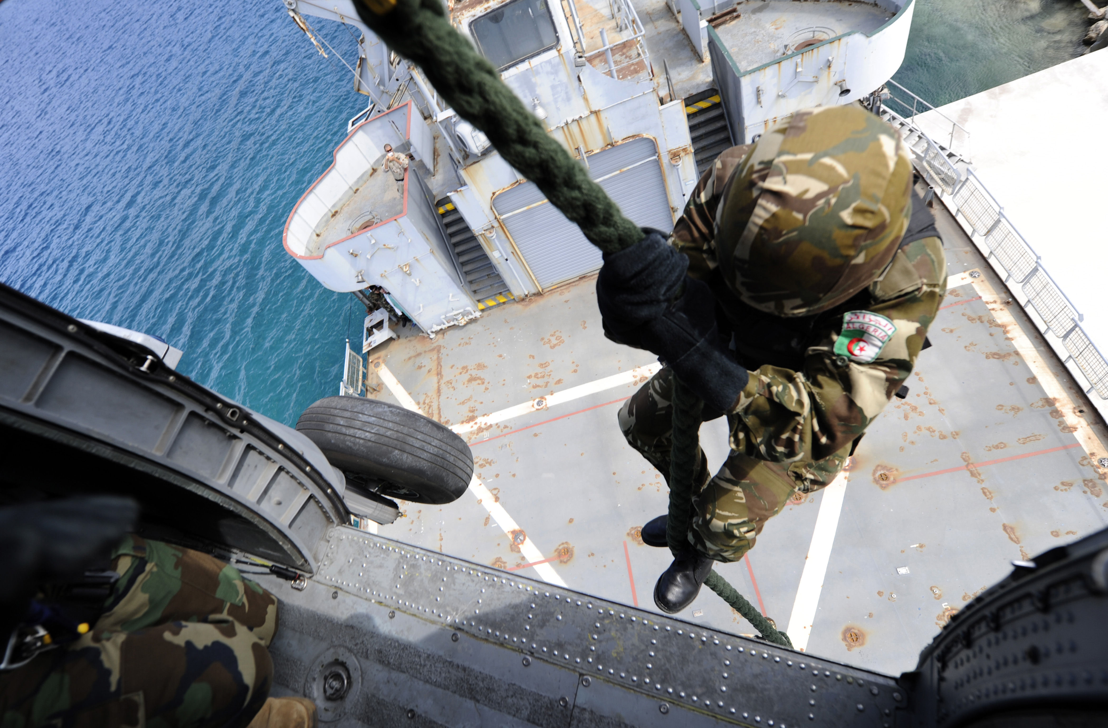 An Algerian navy boarding team member fast-ropes out of a Hellenic Navy S-70B-6 Aegean Hawk helicopter at the NATO Maritime Interdiction Operational Training Center on Souda Bay in Greece May 17, 2012, during Phoenix Express 2012. Phoenix Express is a two-week exercise designed to strengthen maritime partnerships and enhance stability in the region through increased interoperability and cooperation among partners from Africa, Europe and the United States.